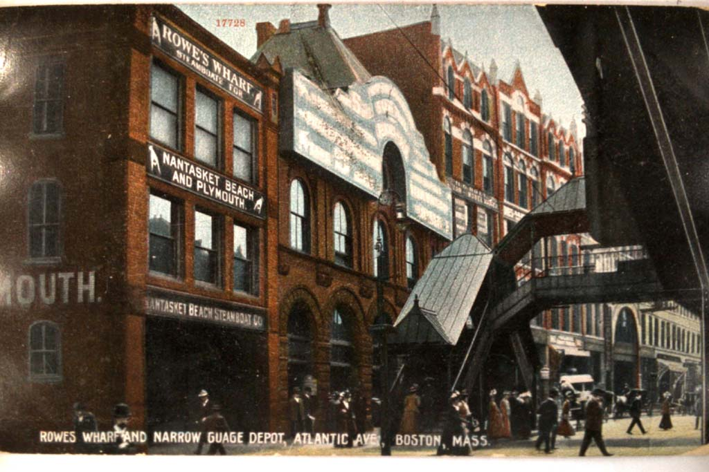 Ferry Terminal, Rowes Wharf, 1908. The Rowes Wharf station on the Atlantic Avenue elevated is visible.